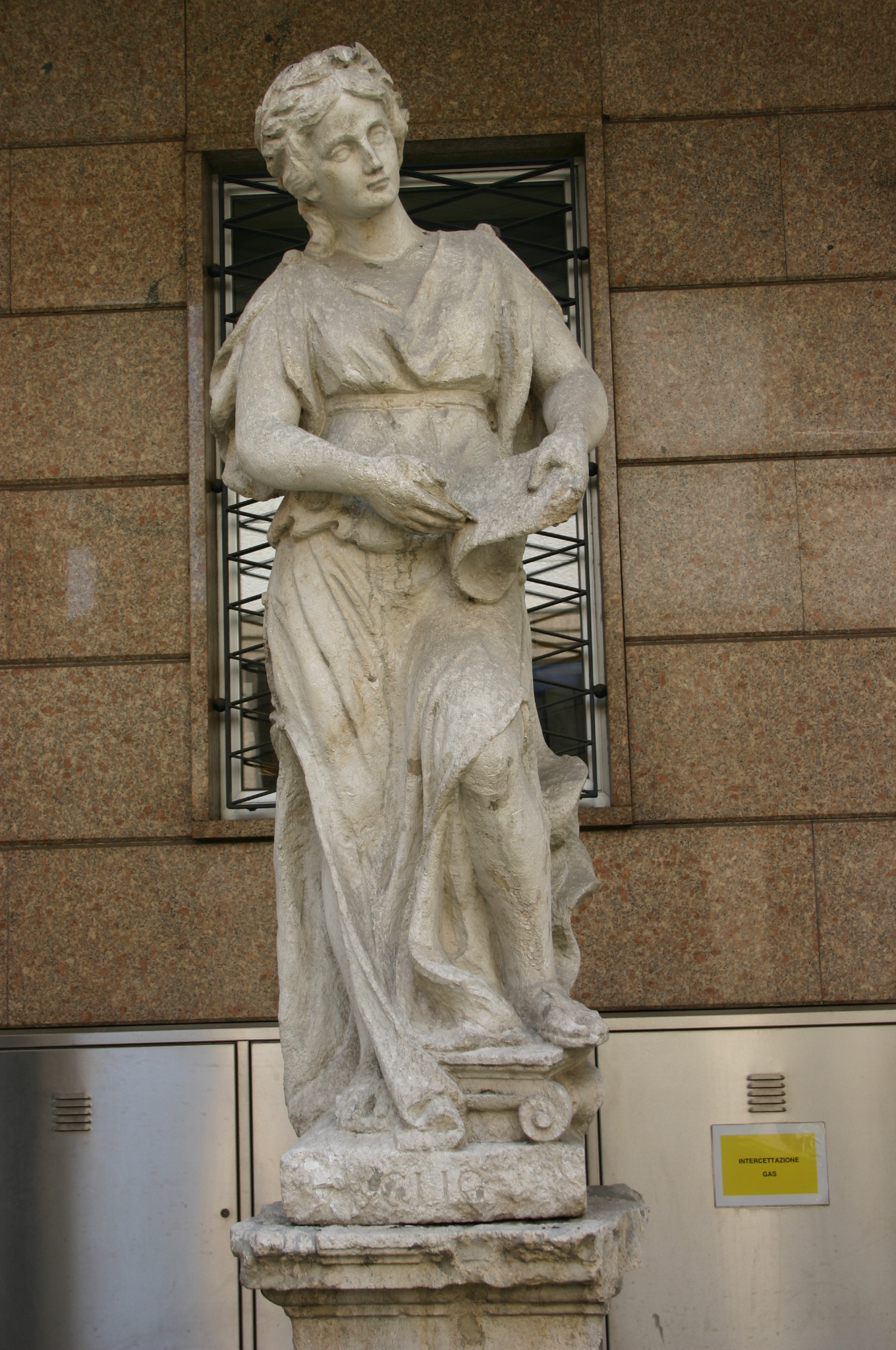 Clio. Belonging to a group of baroque-style statues of the Muses (possibly from a garden?) re-used as a decoration in a modern building, in via Morigi street in Milan, Italy. Picture by Giovanni Dall'Orto, May 18 2007.